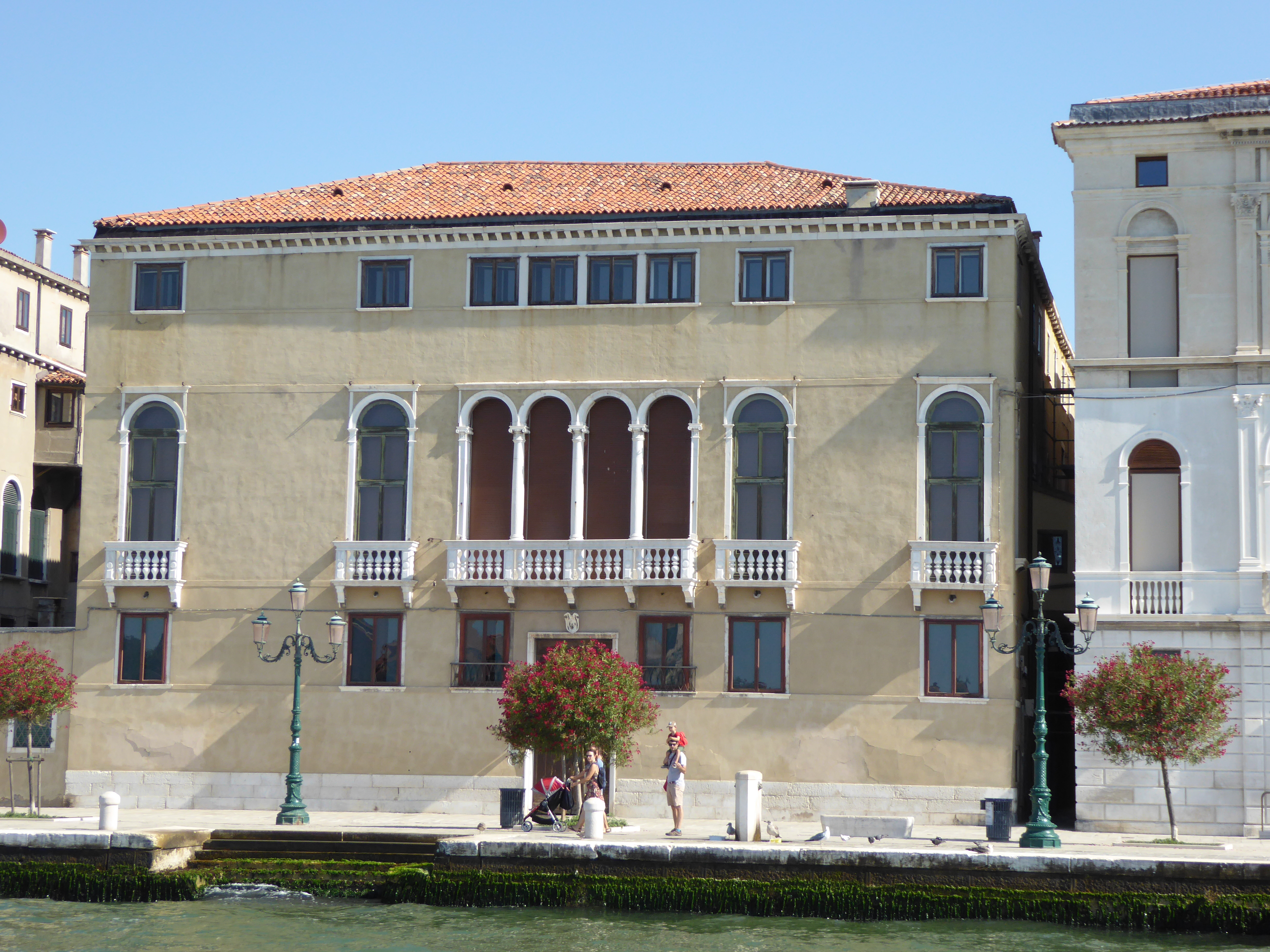 zattere venice